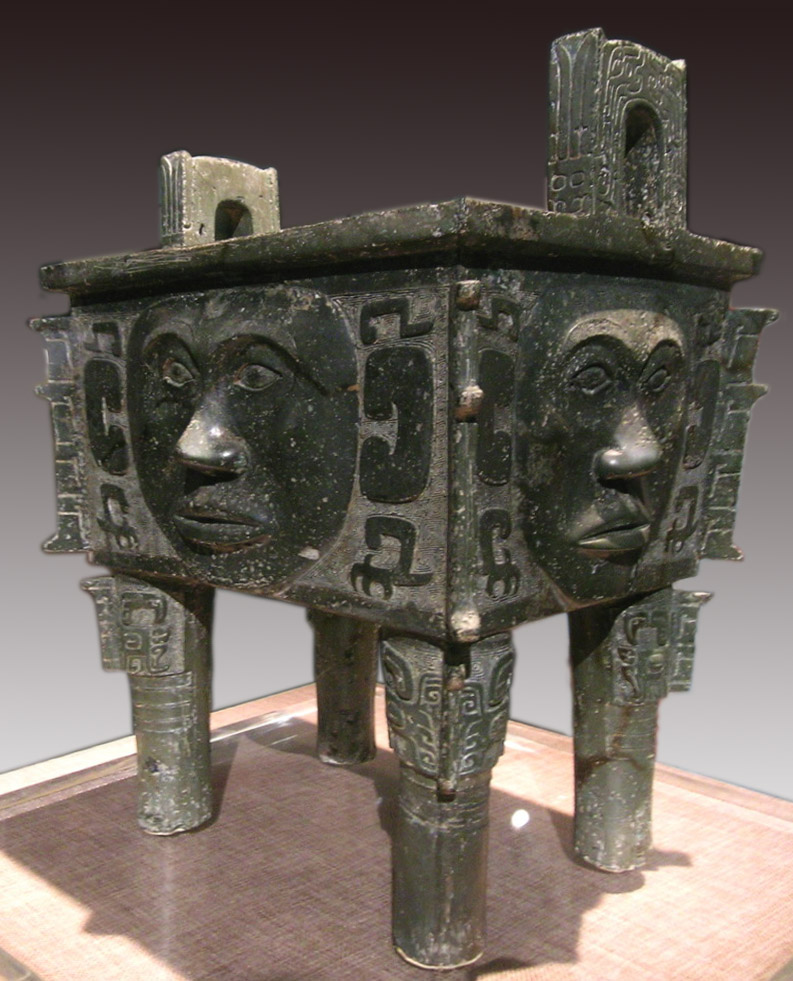 Bronze square ding (cauldron) with human faces: far from the Shang Dynasty territory. Ninxiang, Hunan. 11 th century before our era. it was unearthed at Zhaizishan, Huangcai Town, Ningxiang County in 1959 and displayed at the Hunan Provincial Museum.